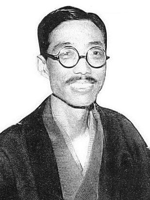 Sadanobu Fujii